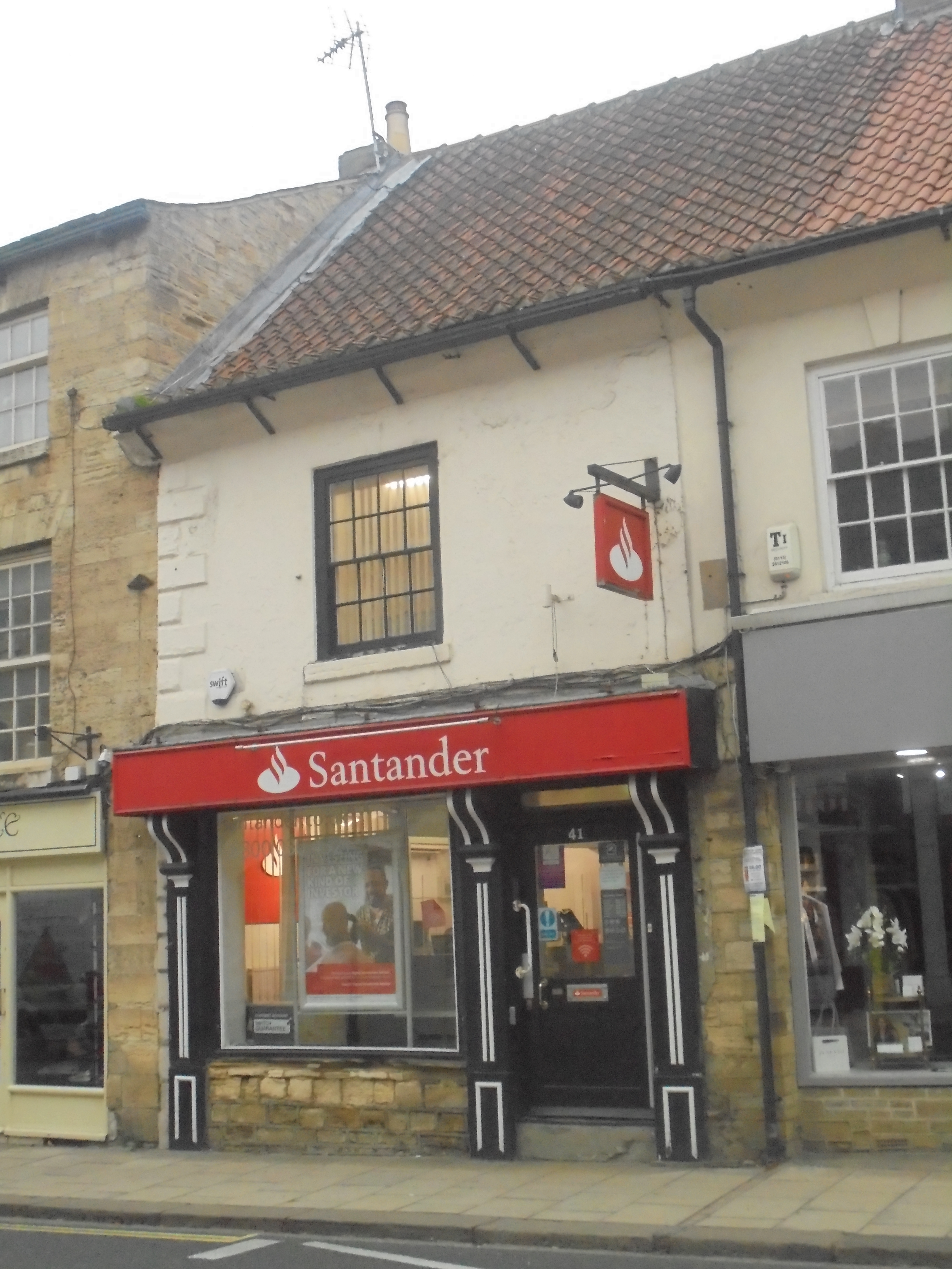 Santander, High Street, Wetherby, West Yorkshire. This was formerly the Abbey National. For a while they were two Santander's in Wetherby, with the former Bradford and Bingley on Westgate serving as one. Taken on the morning of Friday the 5th of October 2018.